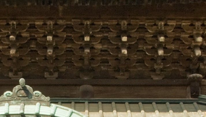 An example of tsumegumi